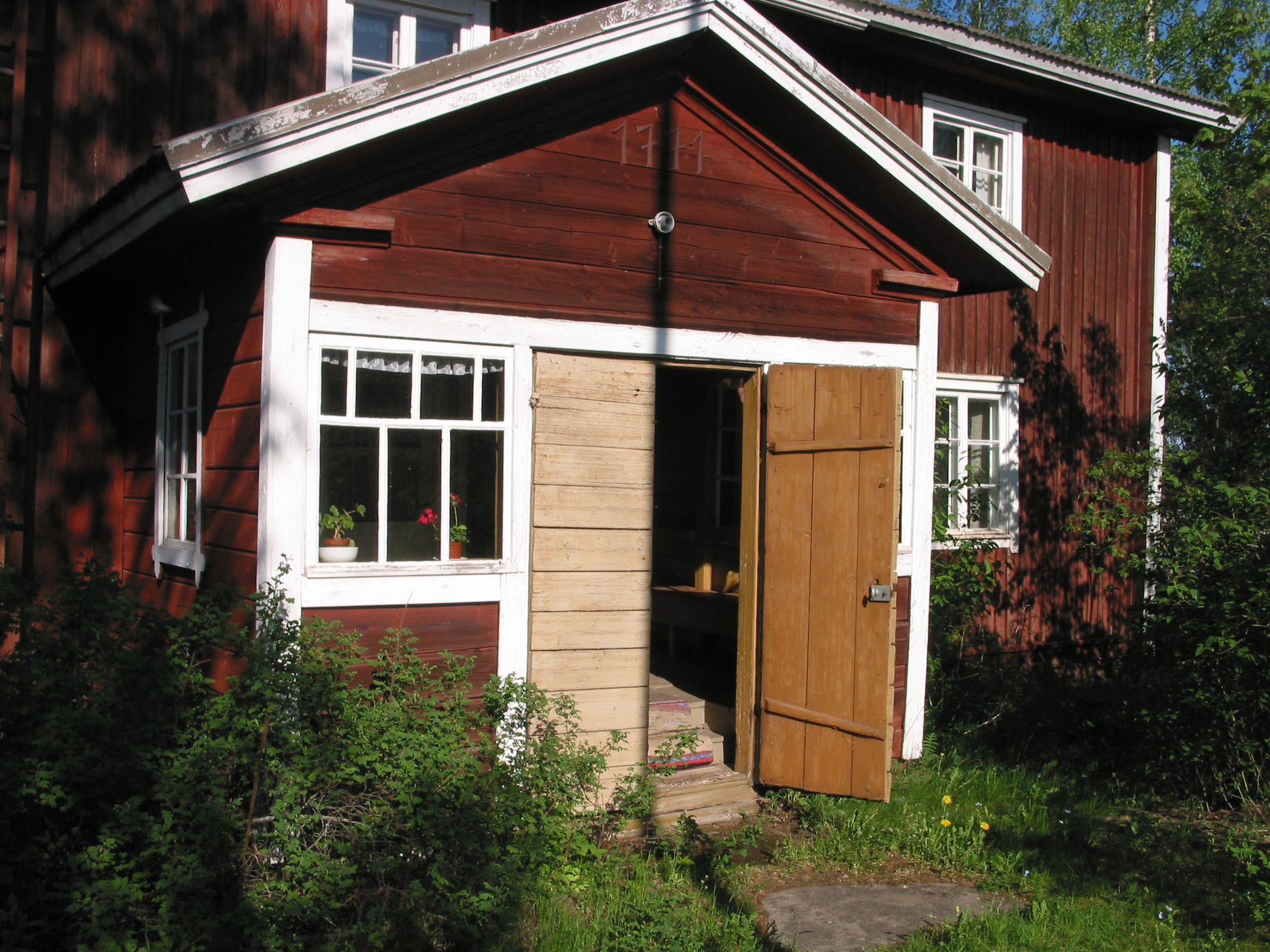 Nummi Museum, Nummi-Pusula, Uusimaa, Finland